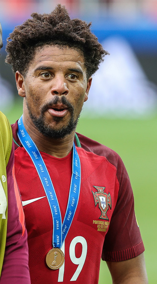 Portugal - Mexico, 2 Jul 2017